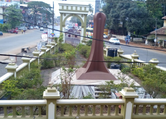 Gandhi Smriti Mandapam, Kanhangad